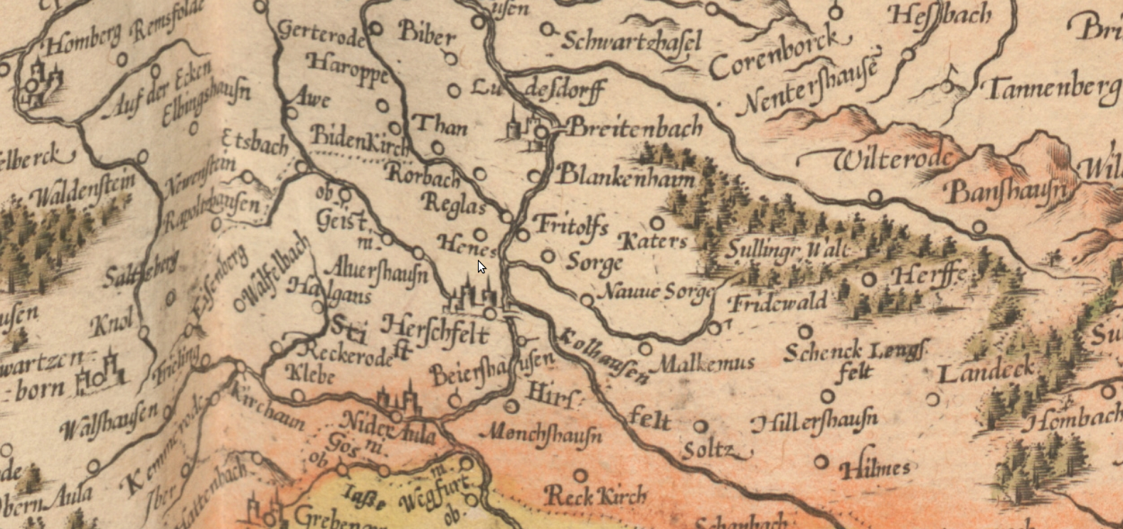 Heenes depicted on a historical map (Mercator, 1595)